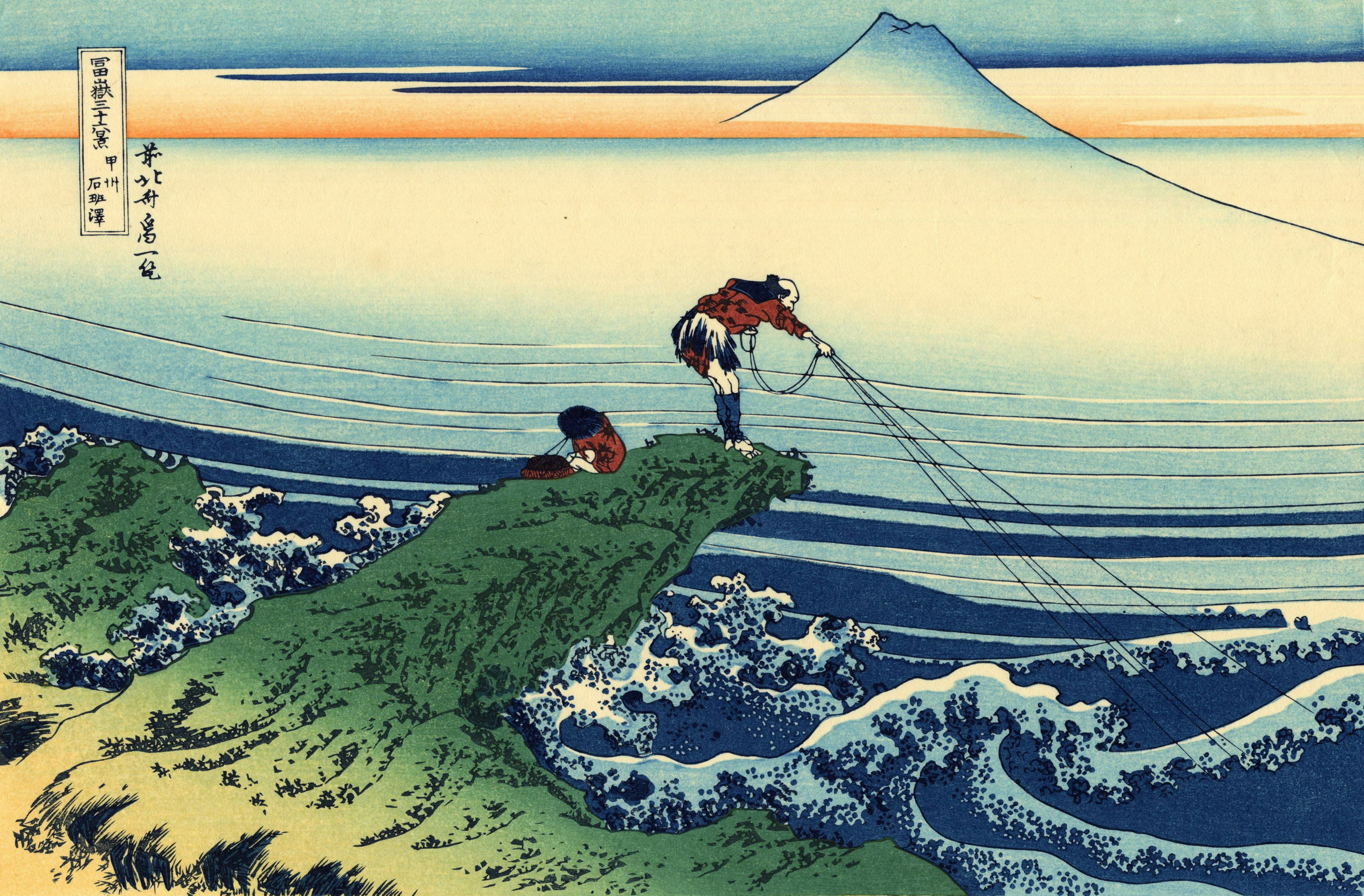 Part of the series Thirty-six Views of Mount Fuji, no. 45, 9th additional woodcut.